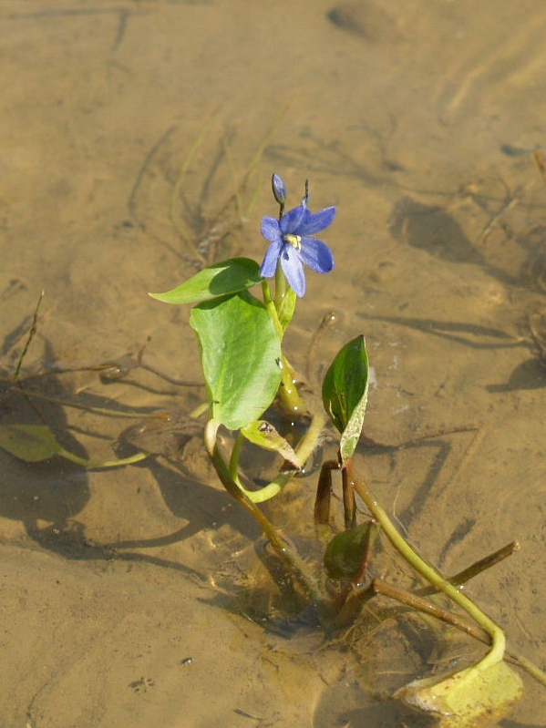 Yu Ito and Anna Skriptsova (2008) Aquatic plant research in Russian Far-East. Bulletin of Water Plant Society, Japan 89: 34-42.